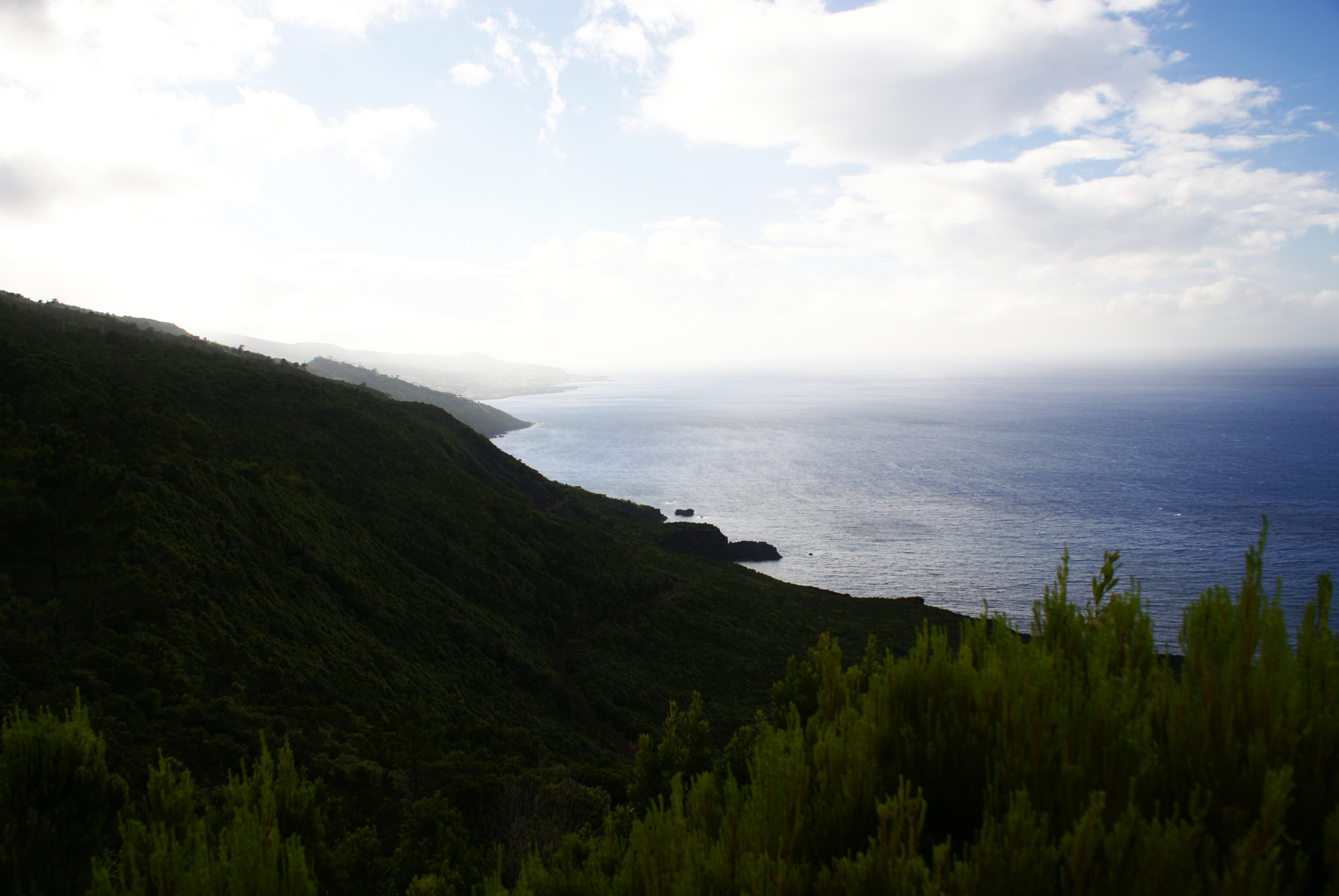 Miradouro de São Miguel Arcanjo, paisagem, Parque Florestal da Prainha, concelho de são Roque do Pico, ilha do Pico, Açores, Portugal